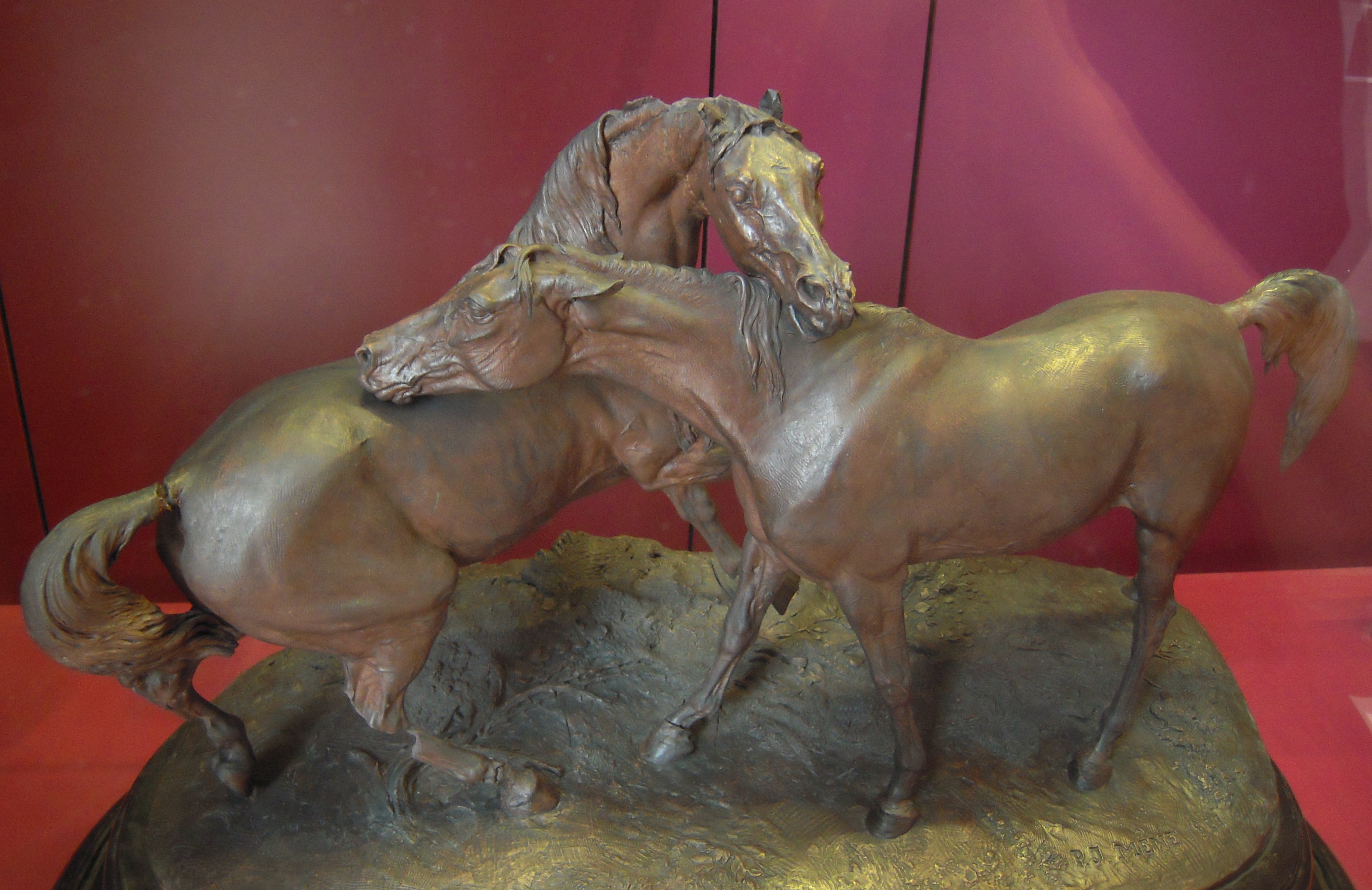 Tachiani et Nedjebé, chevaux arabes, modèle en cire rouge dit aussi l'Accolade, datant de 1851